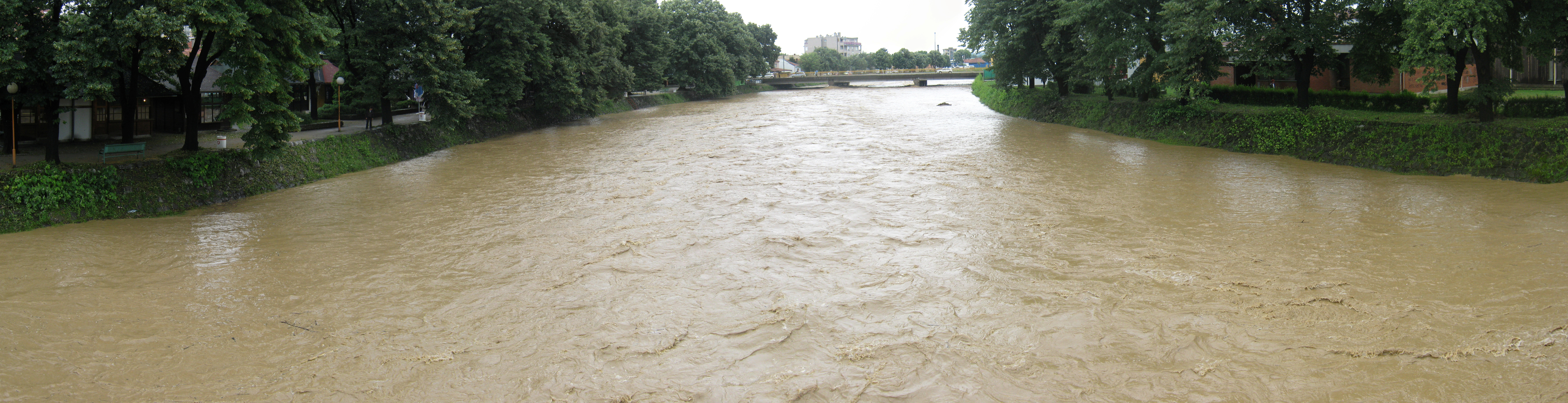 Kolubara River